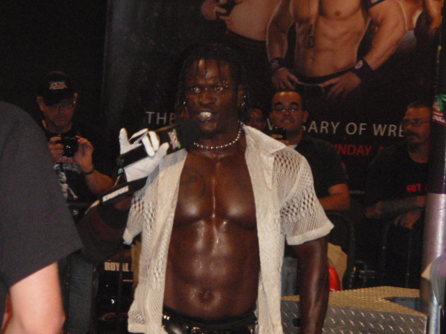 He wrestled Sheamus. 9/24/09